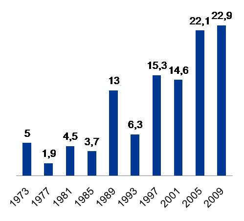 Electoral results of the Norwegian Progress Party since 1973.